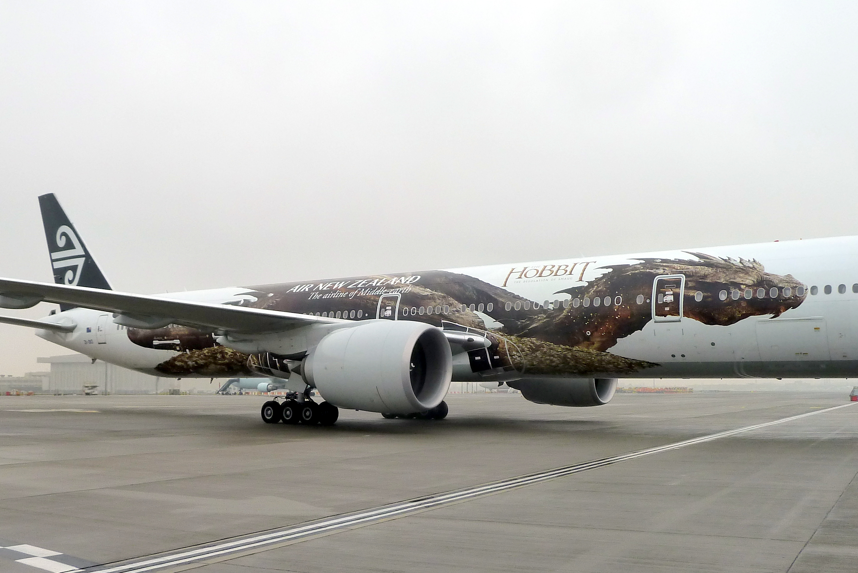 ZK-ONO B773 ANZ pulling on stand 248 emblazoned with the new Hobbit livery "SMAUG".